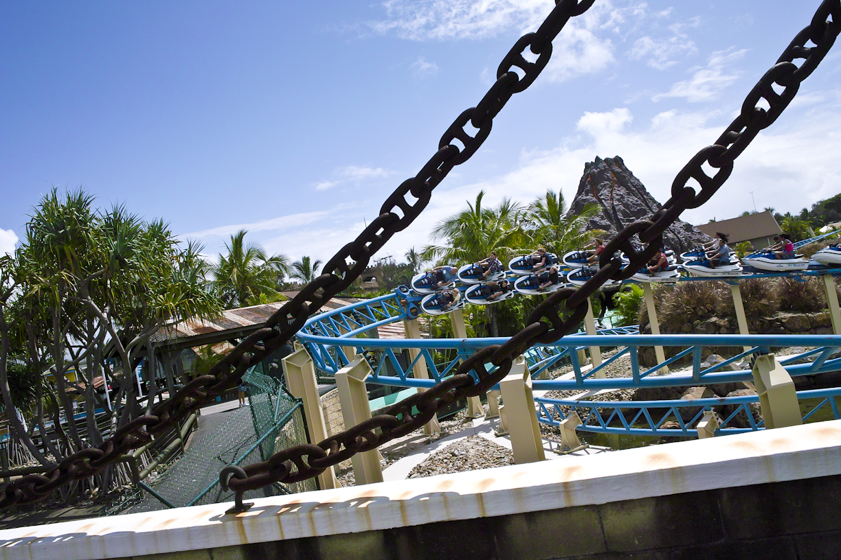 Jet Rescue roller coaster train entering the final turn at Sea World.